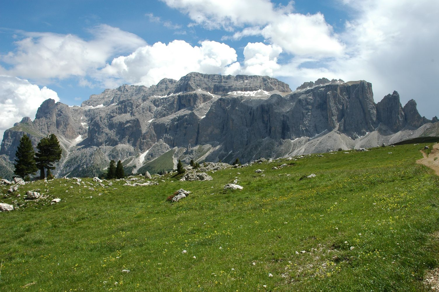 Monte Sella view from Val Gardena, at the outmost right side the Sellatürme.